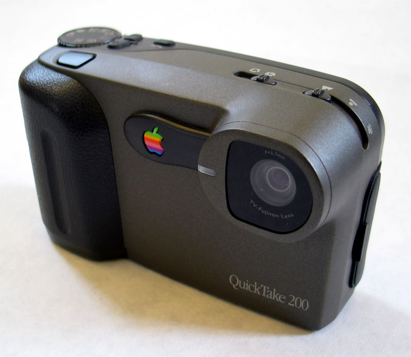 Apple Quicktake 200